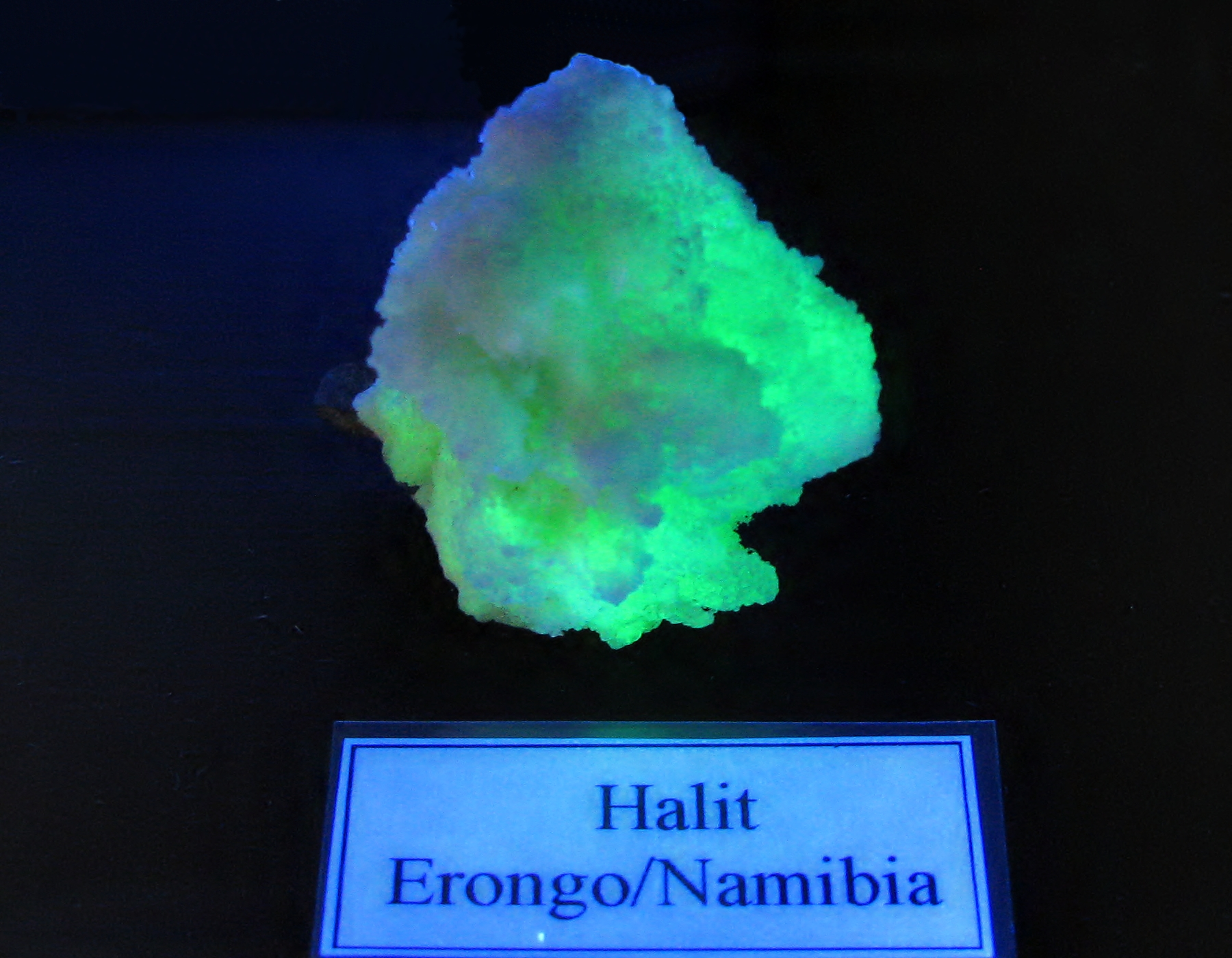 Halite with green fluorescence - Locality: Erongo, Namibia - Exposed in the Mineralogical Museum, Bonn, Germany